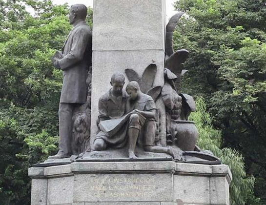 Executive Secretary Salvador Medialdea leads the wreath-laying ceremony during the commemoration of the 122nd Anniversary of the Proclamation of Philippine Independence at the Rizal Park in Ermita, Manila on June 12, 2020.